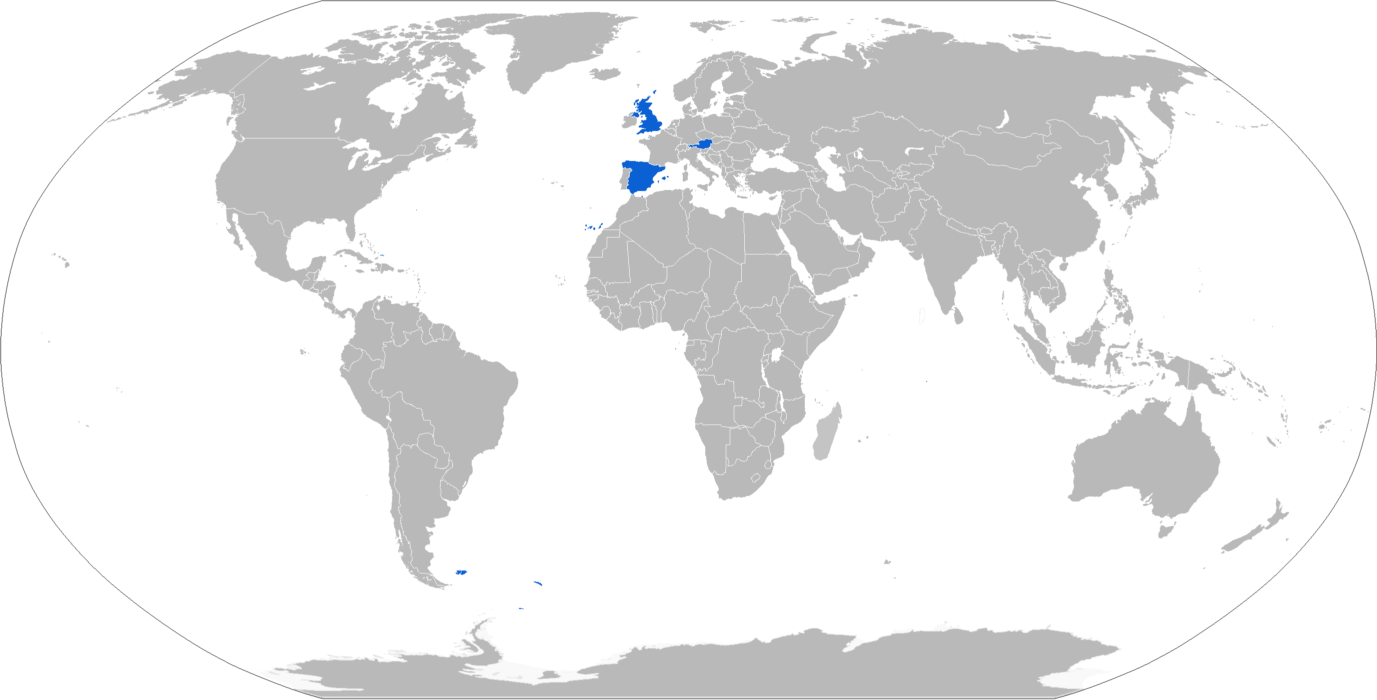 Map of ASCOD operators in blue